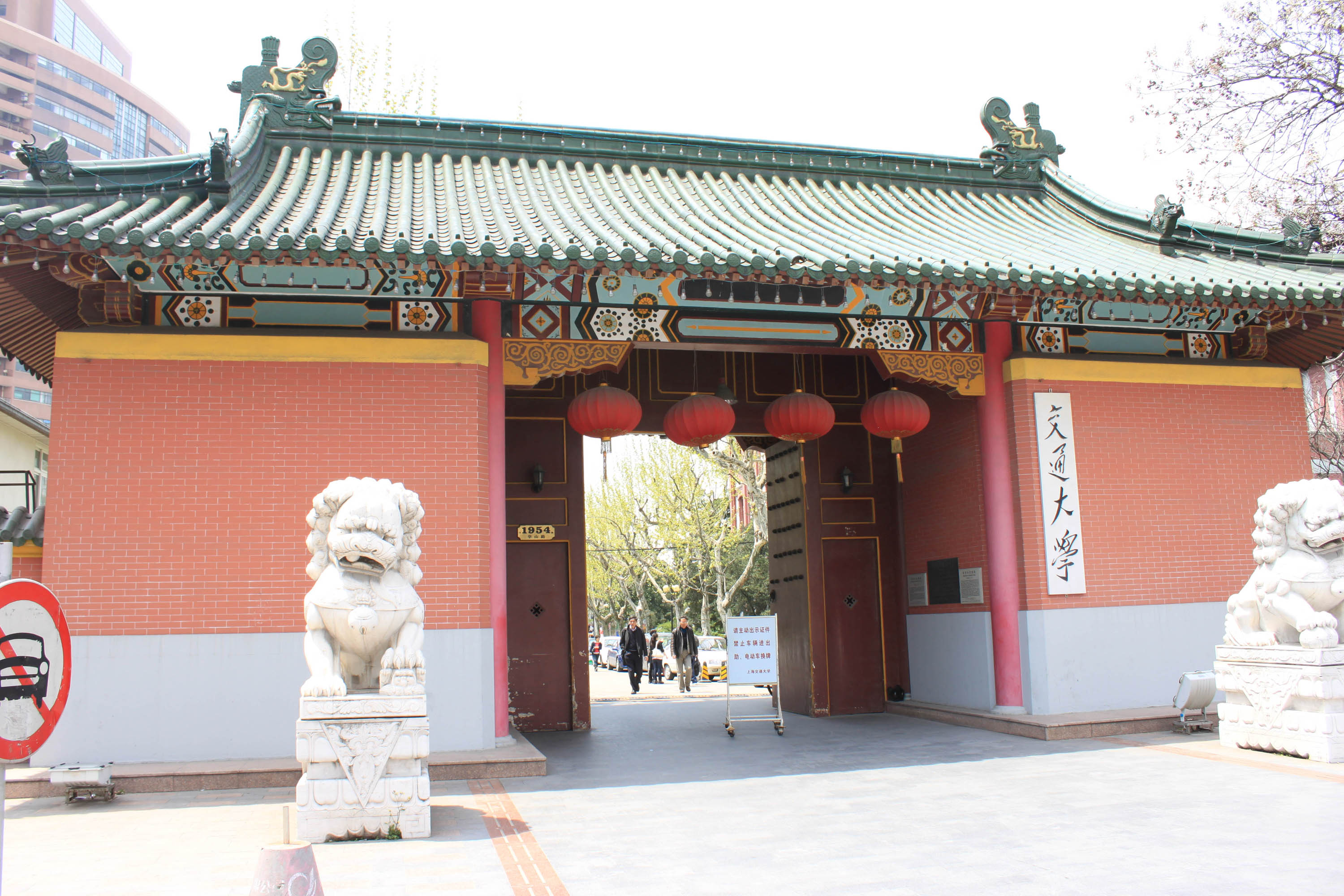 Shanghai Jiao Tong University Xuhui Campus Gate